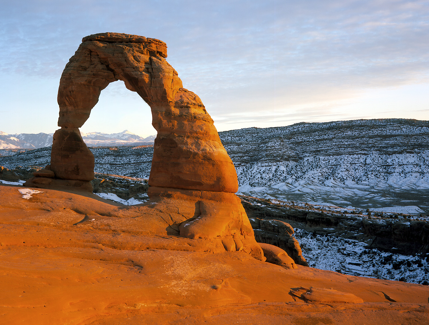 Delicate Arch in Arches National Park, in Utah.